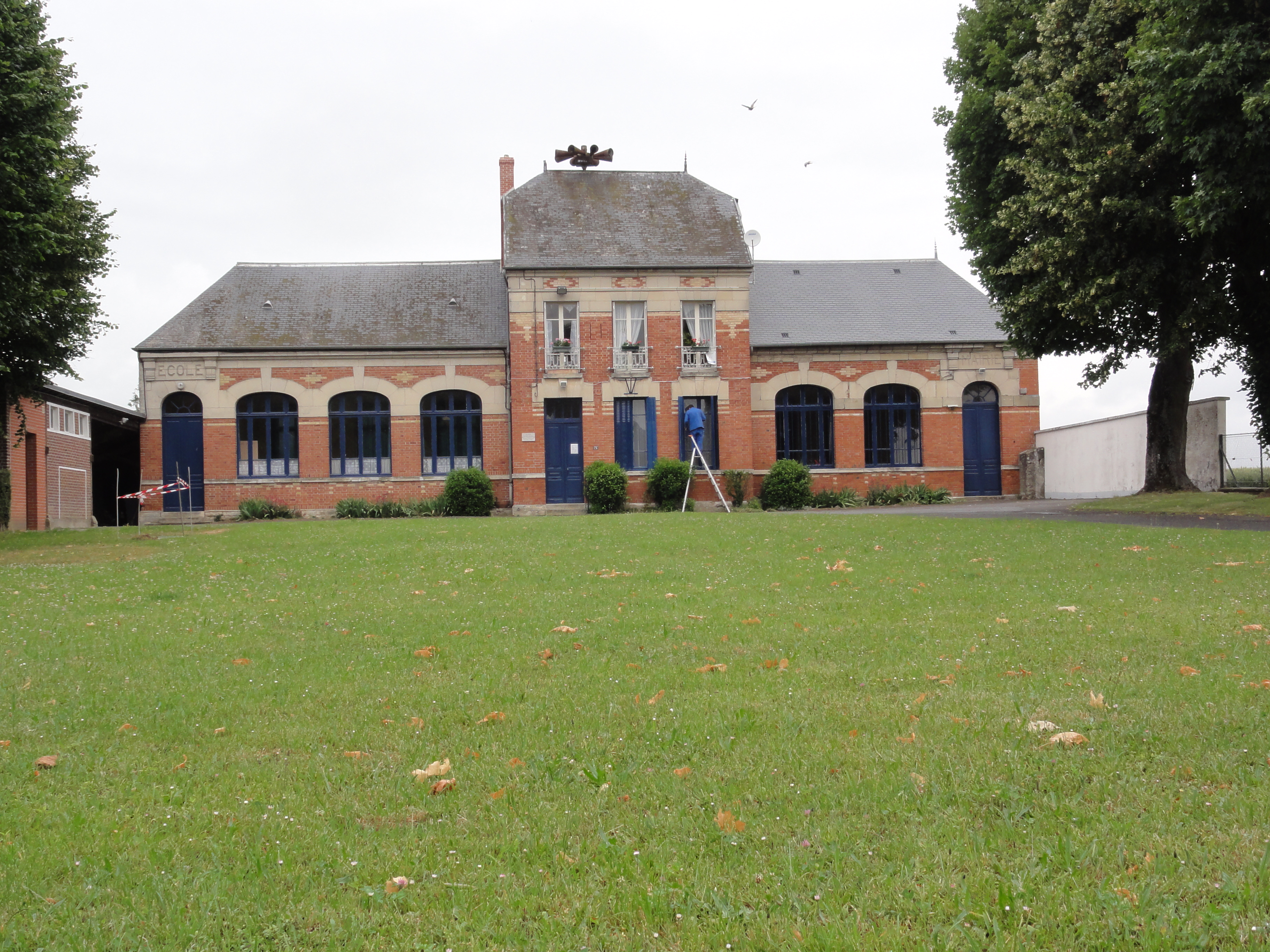 Terny-Sorny (Aisne) mairie-école